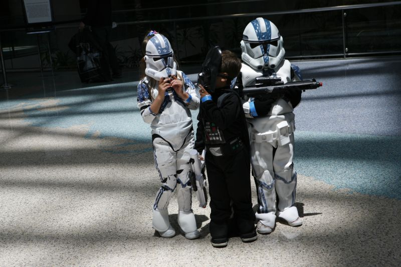 Photo by Jenny Elwick. Read more at the Official Celebration IV blog. Costumes at Star Wars Celebration IV in 2007 at the Los Angeles Convention Center in Los Angeles.